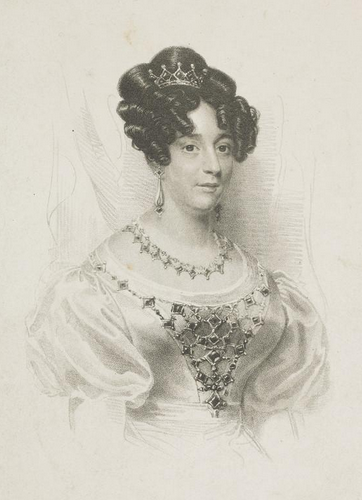 Madame Sala, stage name of Henrietta Catharina Florentina (née Simon) Sala, British actress and singer fl 1827-1859 and mother of George Augustus Sala